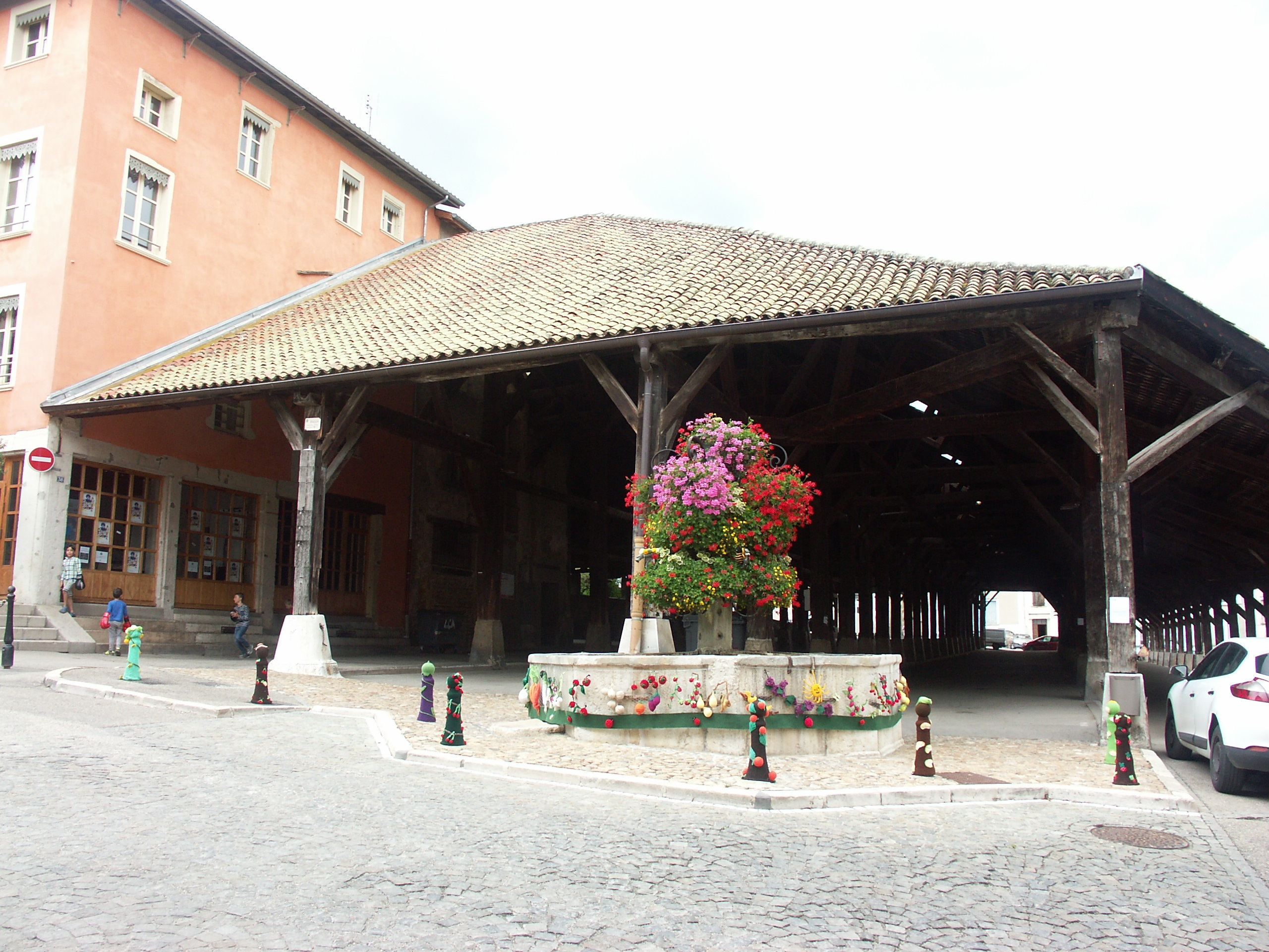 Vue Exterieure